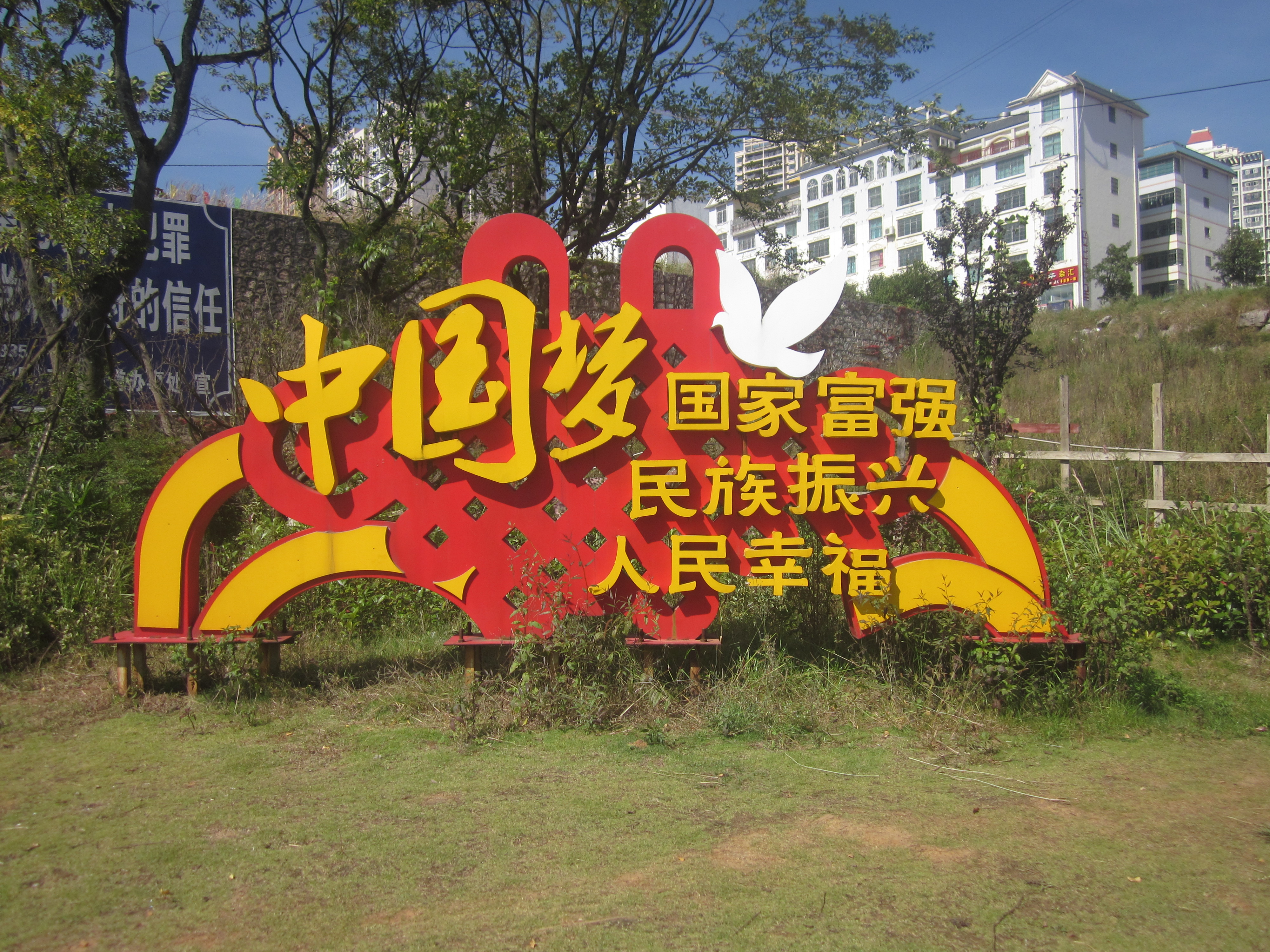 Chinese characters "Chinese Dream" in South Lake Park, Panzhou, Guizhou, China, on 1 November 2019.